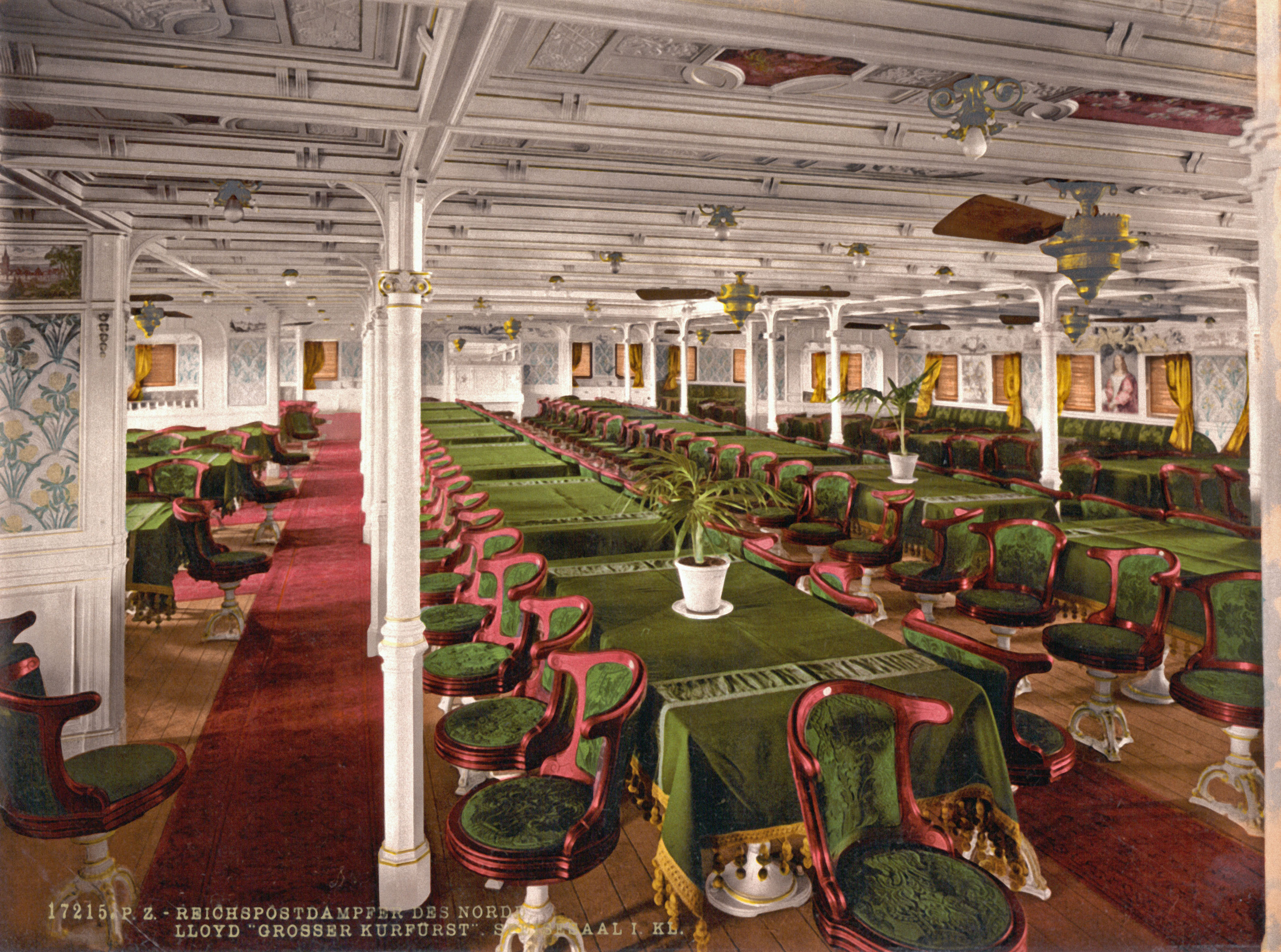 Description information copied from Library of Congress website: TITLE: "Grosser Kurfurst," dining room, first class, North German Lloyd, Royal Mail Steamers CALL NUMBER: LOT 13411, no. 1212 [item] [P&P] REPRODUCTION NUMBER: LC-DIG-ppmsca-02212 (digital file from original) RIGHTS INFORMATION: No known restrictions on publication. MEDIUM: 1 photomechanical print : photochrom, color. CREATED/PUBLISHED: [between ca. 1890 and ca. 1900]. NOTES: Title from the Detroit Publishing Co., catalogue J--foreign section. Detroit, Mich. : Detroit Photographic Company, 1905. Print no. "17215". Forms part of: Views of Germany in the Photochrom print collection. FORMAT: Photochrom prints Color 1890-1900. PART OF: Views of Germany REPOSITORY: Library of Congress Prints and Photographs Division Washington, D.C. 20540 USA DIGITAL ID: (digital file from original) ppmsca 02212 CONTROL #: 2002720838